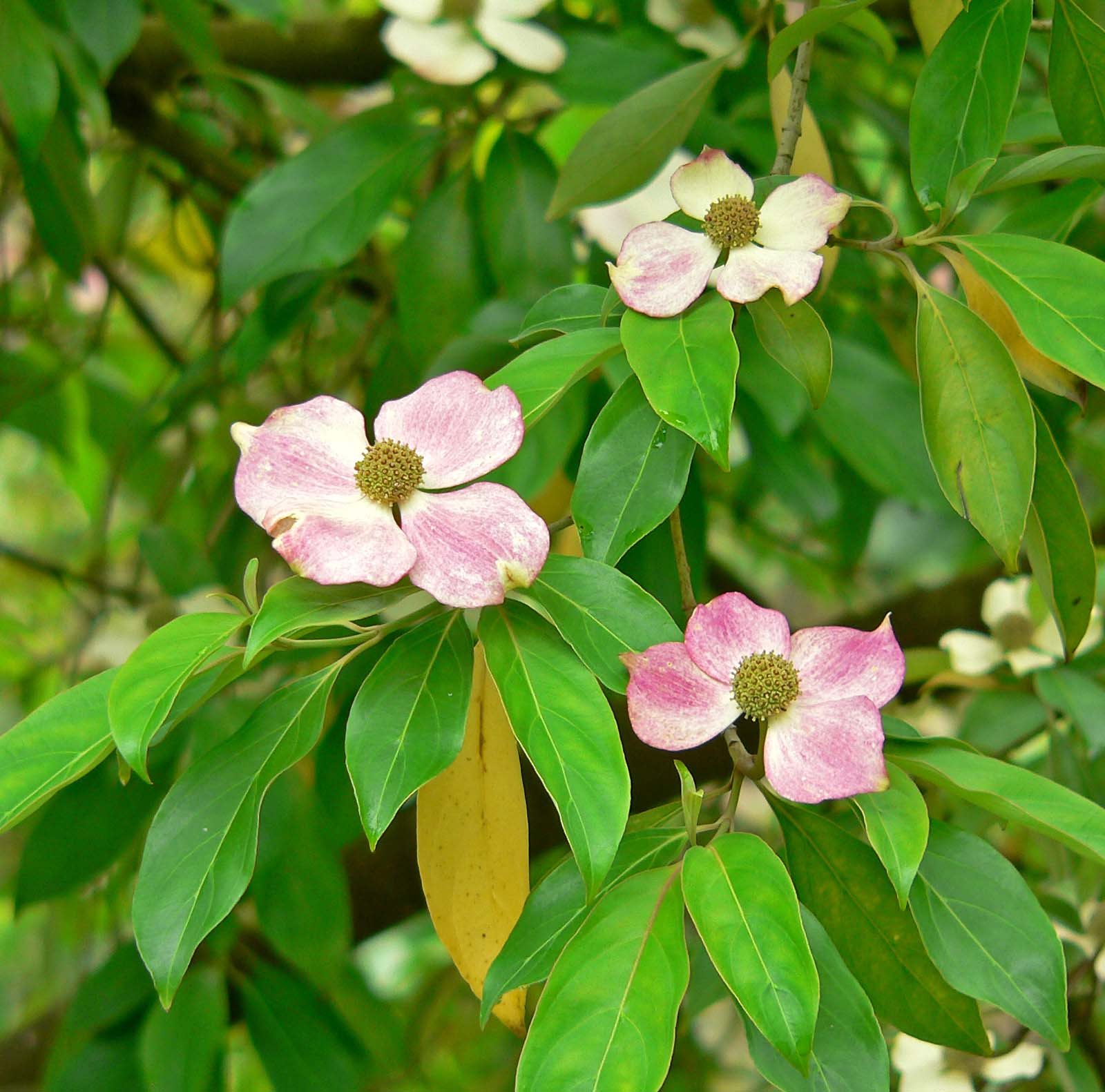 Photo of Cornus capitata at the San Francisco Botanical Garden